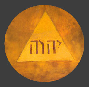 Francisco de Goya y Lucientes. "The name of God" (Tetragrammaton in triangle), fresco detail from LA GLORIA or LA ADORACIÓN DEL NOMBRE DE DIOS (1772). Basílica del Pilar, Zaragoza (Spain).